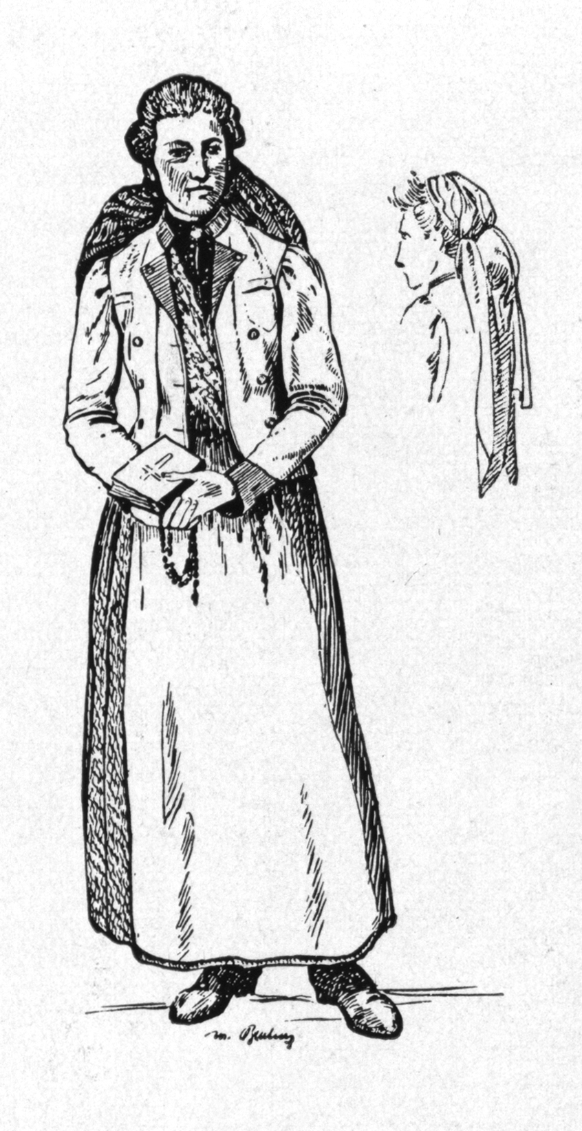 Steirisches Trachtenbuch - Mautner-Geramb 1935 Traditional Costumes from Ennstal, Styria Scanprojekt Bundesdenkmalamt Österreich This scan or this PDF-file was created within the Austrian Wikipedia-project Denkmalpflege Österreich (German only) supported by Wikimedia Germany and Wikimedia Austria as part of the Wikipedia community-project to collect public domain documents from the library of the Heritage Monuments Board of Austria. This document describes or depicts an object which is located in Austria today. Texts are written in German language. Send requests for uncompressed scans to Hubertl. This work is in the public domain in the United States, and those countries with a copyright term of life of the author plus 100 years or less. This file has been identified as being free of known restrictions under copyright law, including all related and neighboring rights.